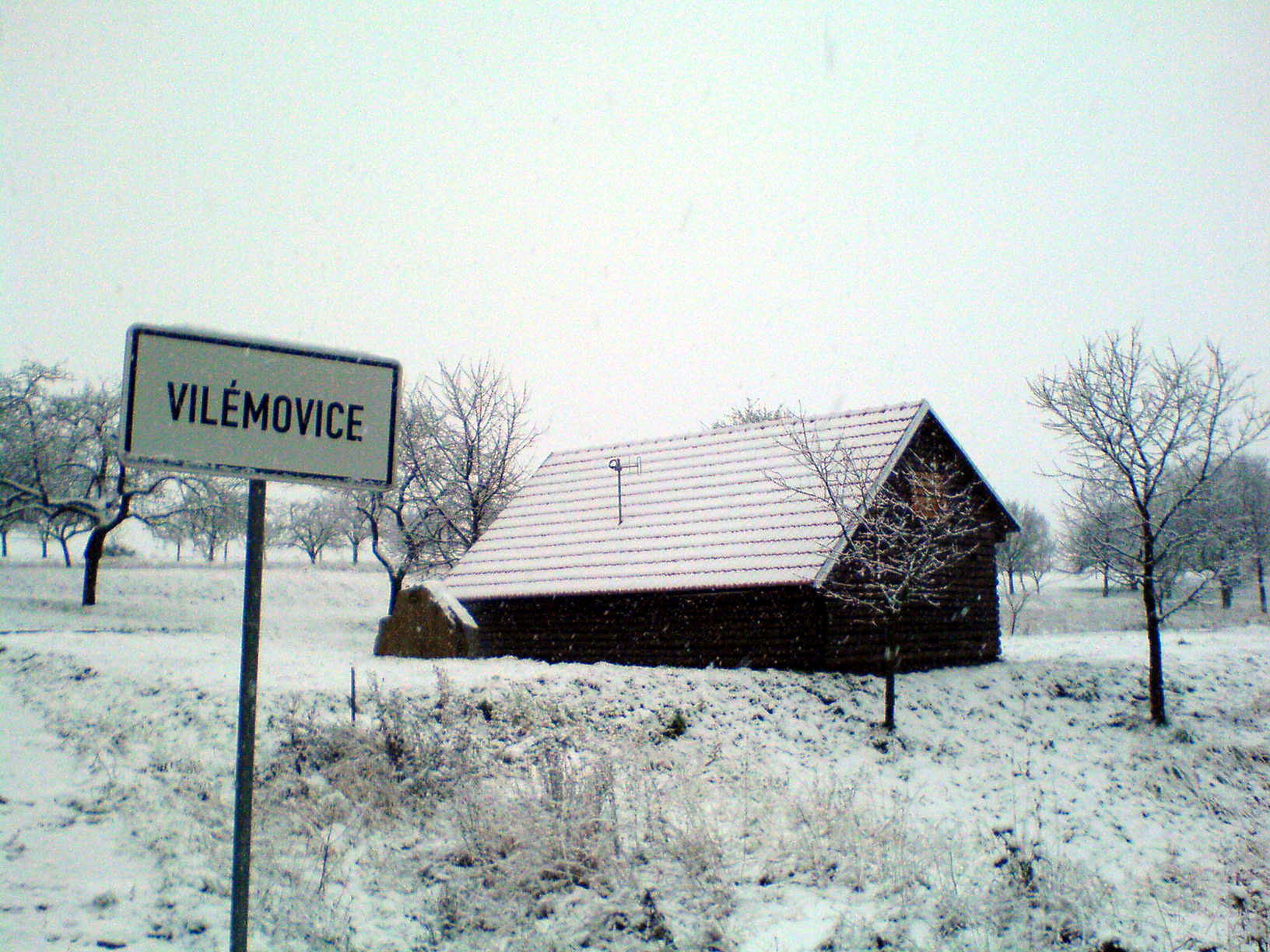 Entering the village of Vilémovice, Blansko District, Czech Republic